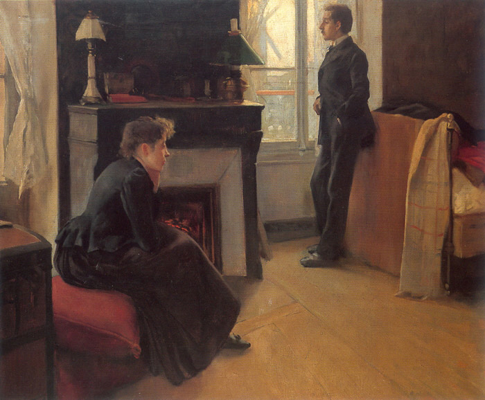 models: Suzanne Valadon and Miguel Utrillo in Rusinol's room above the Moulin de la Galette in Montmartre